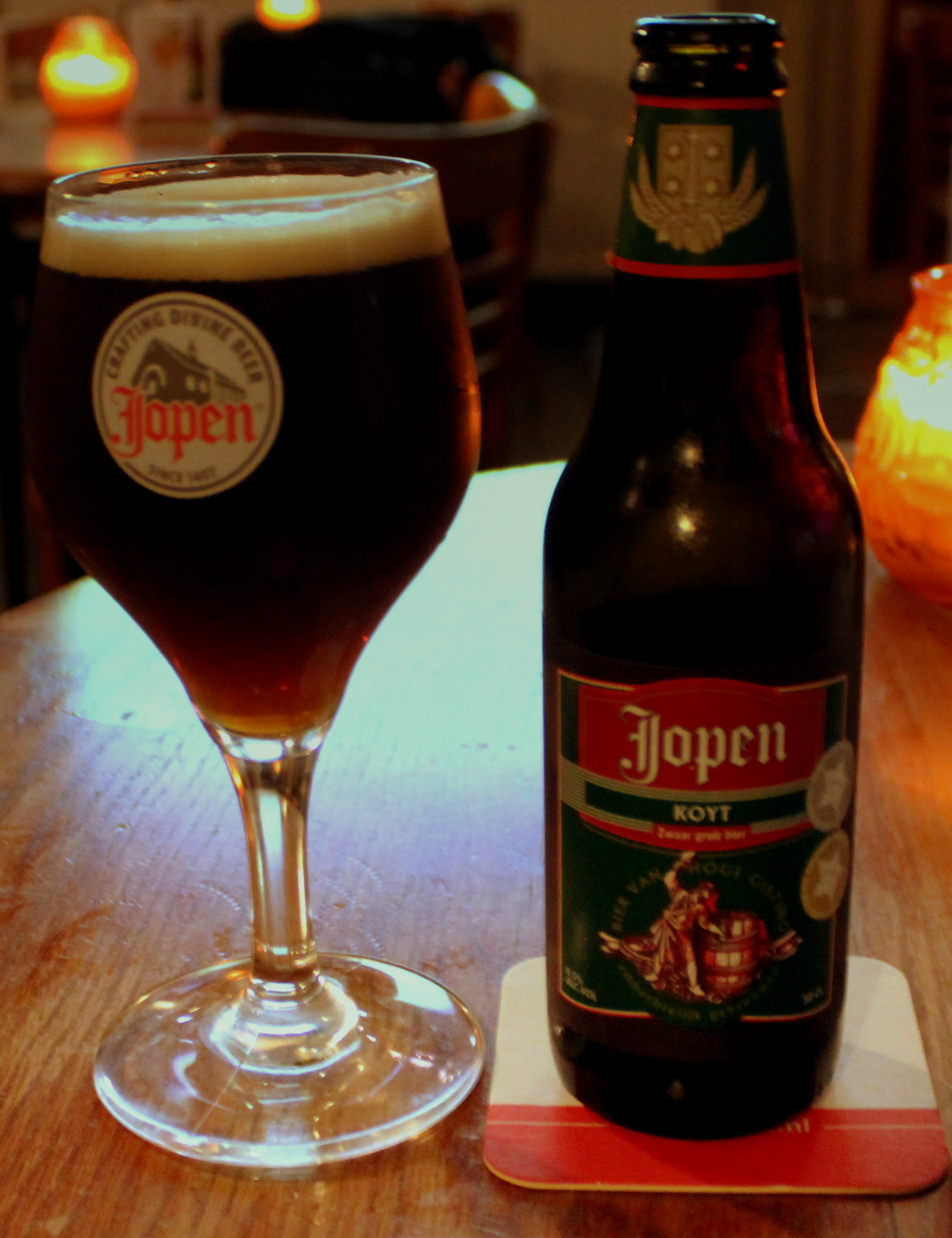 JOPEN KOYT BEER AT THE STAYOK HOSTEL HAARLEM NORTH HOLLAND JUNE 2014